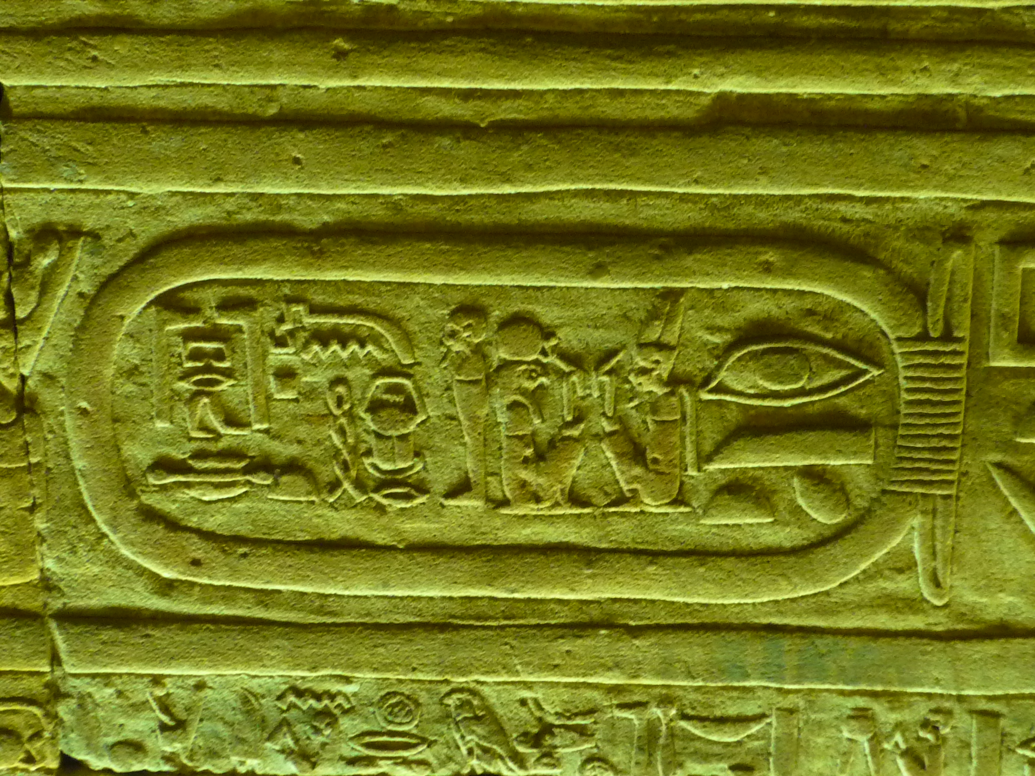 Wall relief of cartouche in Treasure hall, temple of Edfu, Egypt